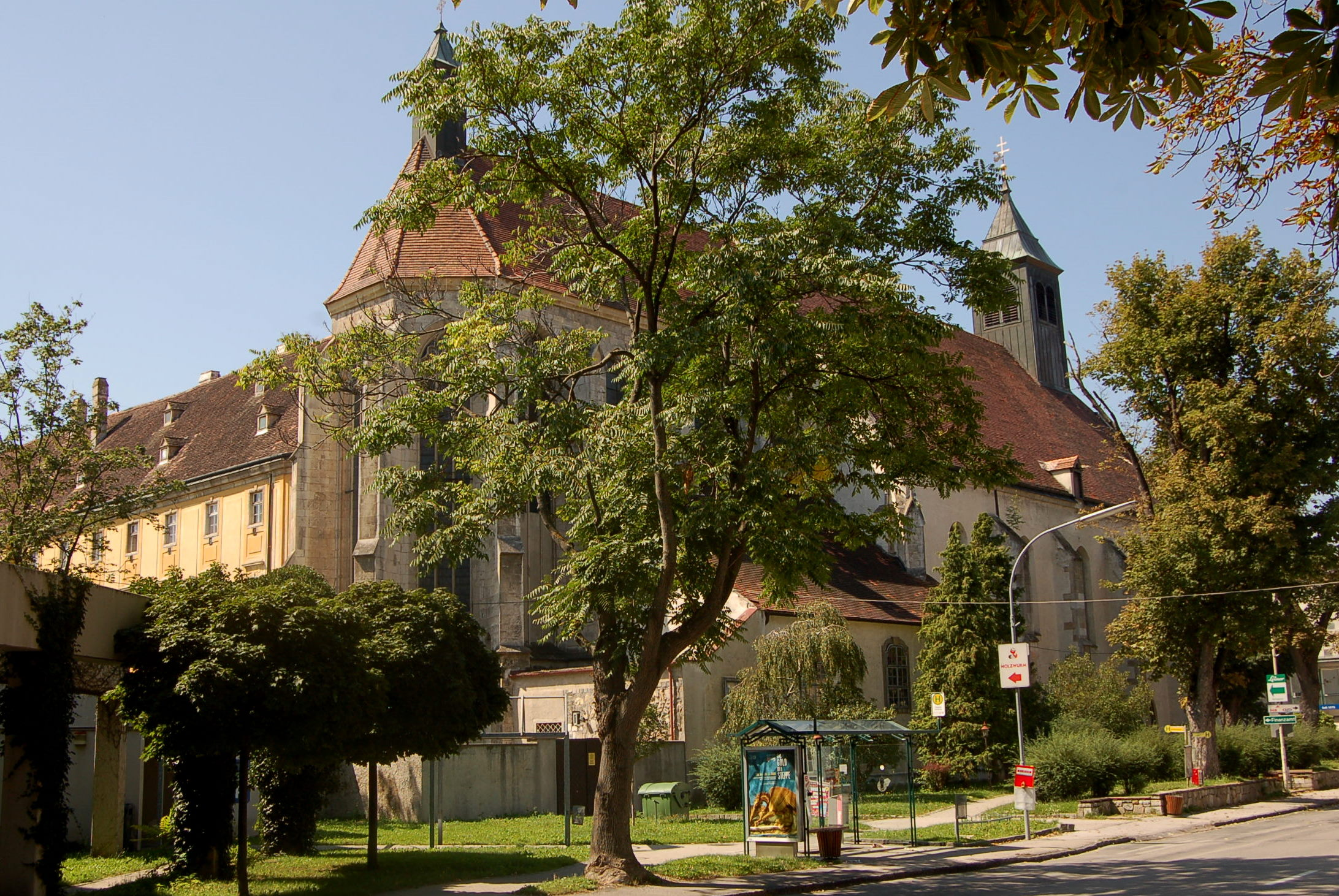 Church of Neukloster Abbey, Wiener Neustadt, Lower Austria, as seen from Ungargasse